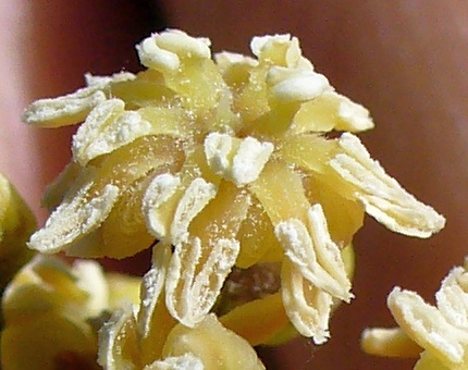 Male flower of Amborella trichopoda, Wertheim Conservatory, Florida International University, Miami, Florida, USA.